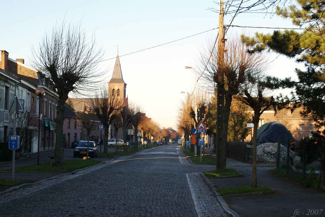 Lanaye (Belgium): rue du Village (High Street)